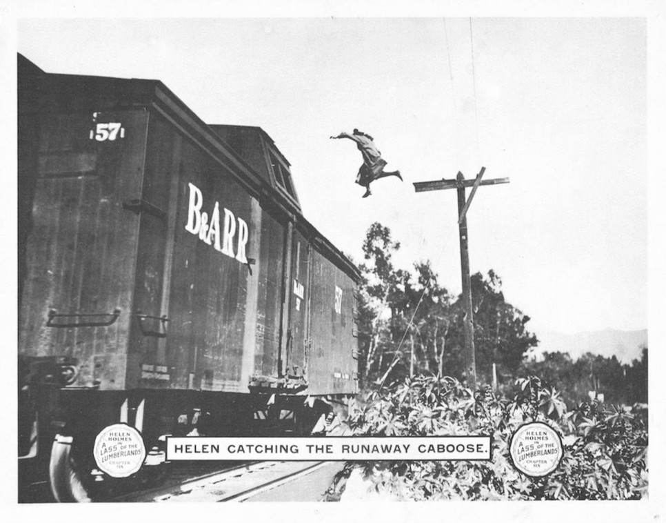 Lobby card for the 1916 serial A Lass of the Lumberlands.